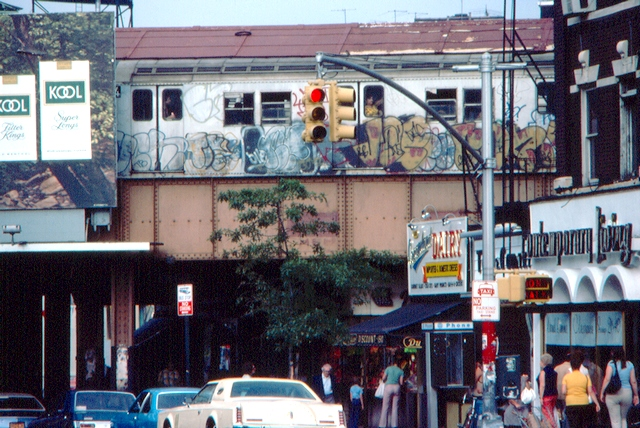 Kings Highway sometime during the early-1980's.